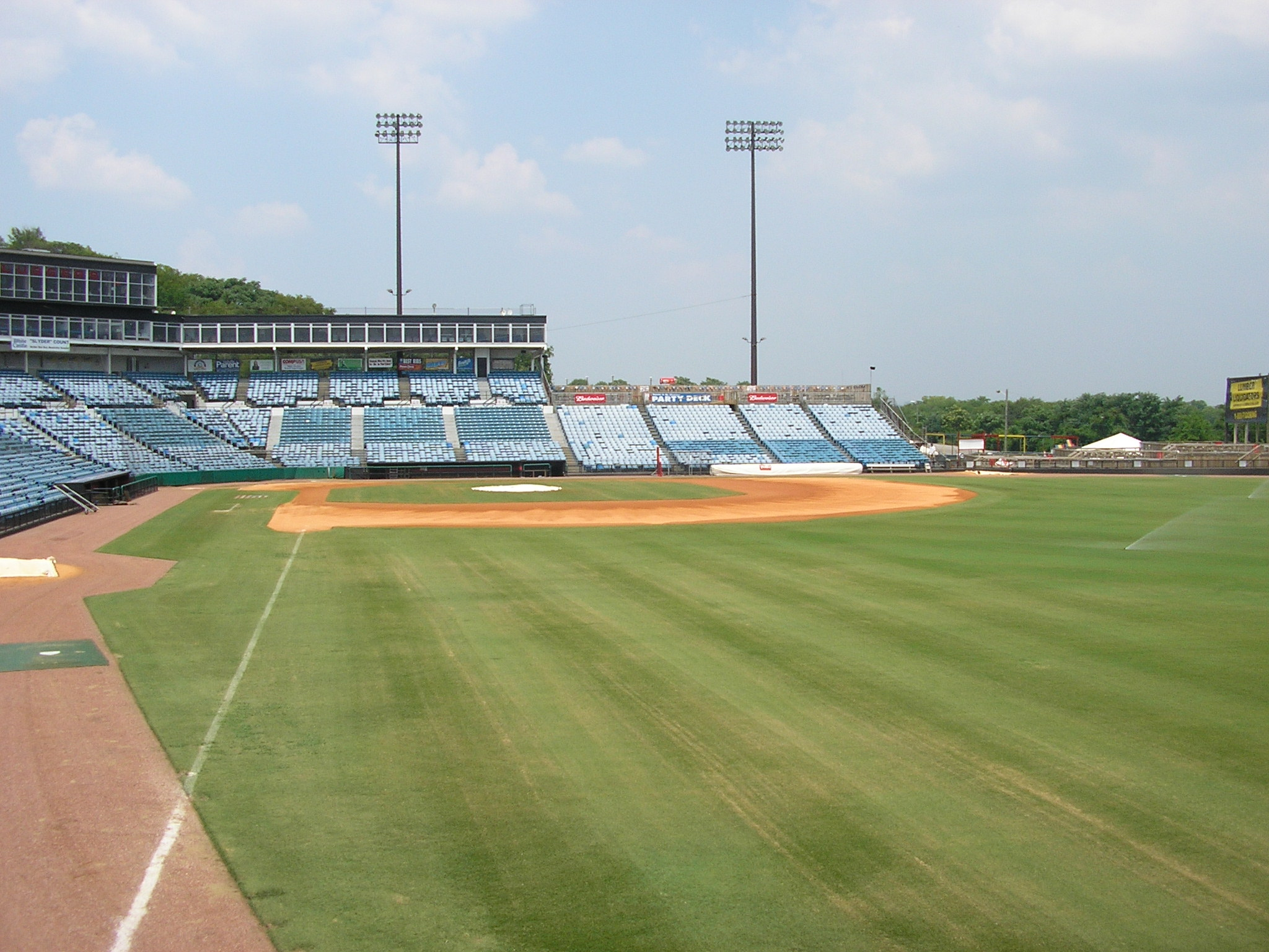 A view from the first base line at Herschel Greer Stadium.